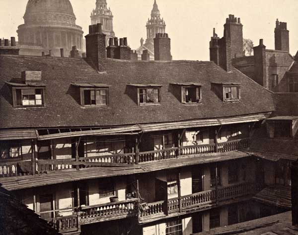 Oxford Arms, Warwick Lane, London 17th century galleried inn demolished 1876